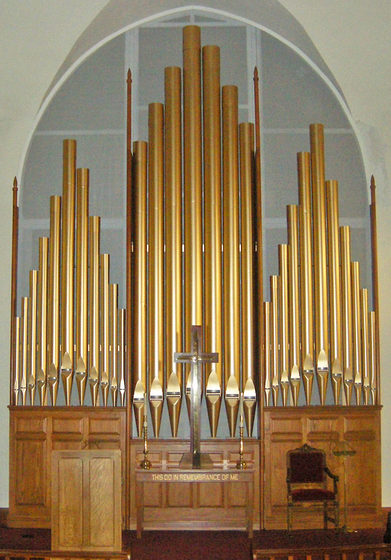 Pipe organ facade as seen inside the Aspen Community Church of Aspen, Colorado.